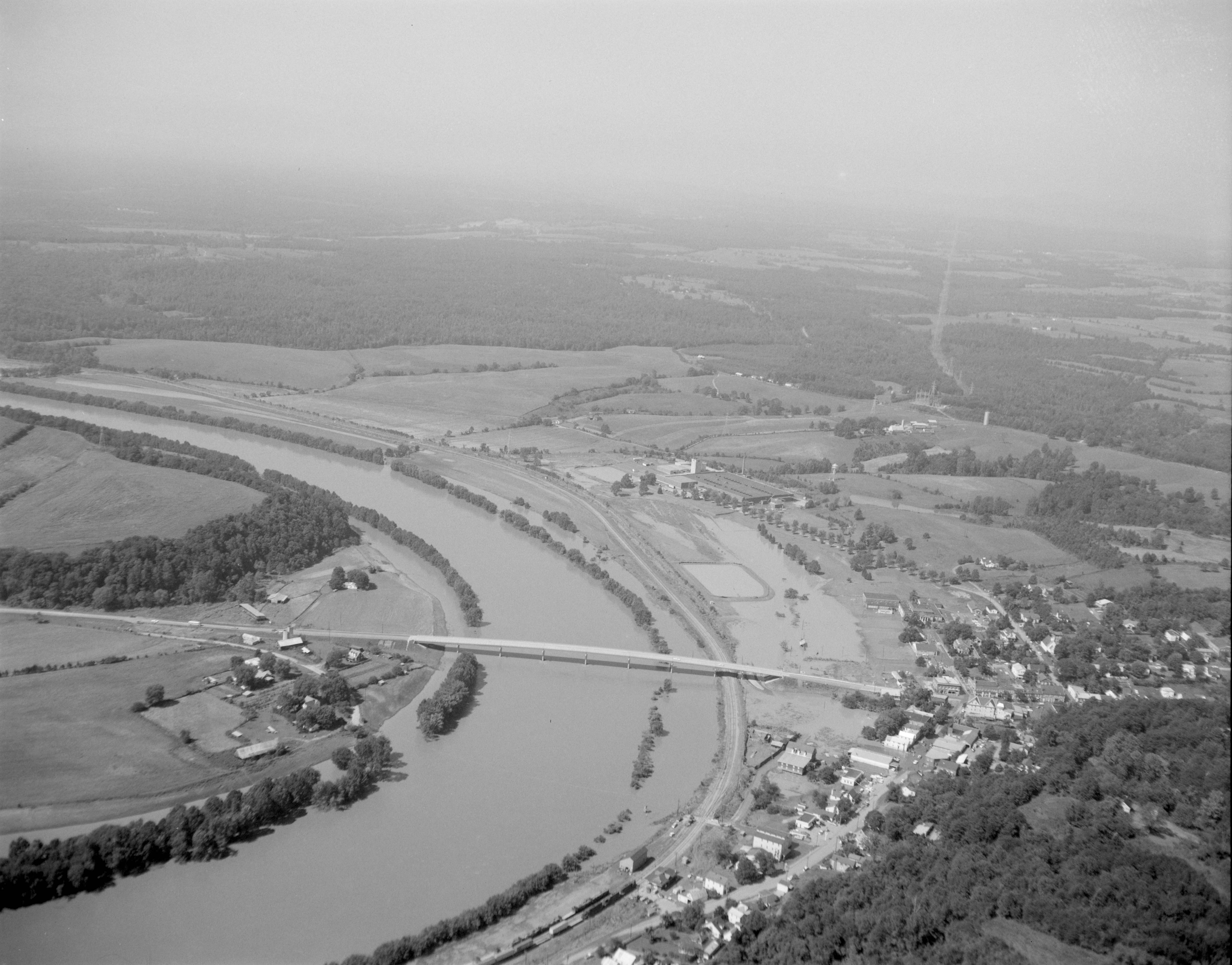 The small town of Scottsville was flooded by the nearby James River. Located at the intersection of Rt. 20 and Rt. 6 in southern Albemarle County. Image looks west. No. 69-2147, Virginia Governor's Negative Collection, Library of Virginia.